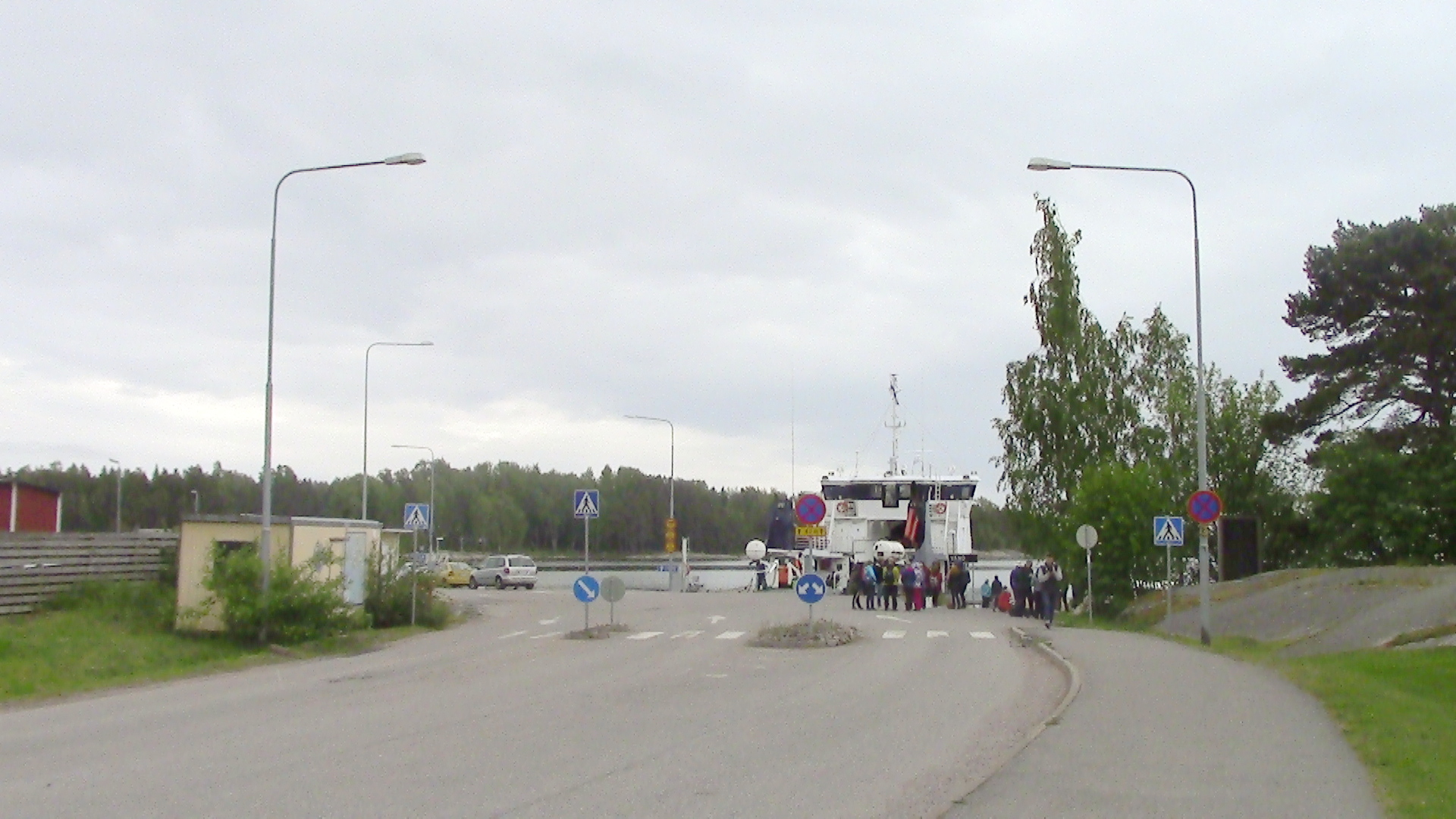 View to Kasnäs harbour in Kimitoön, Finland. It's also part of the Connecting road 1830.